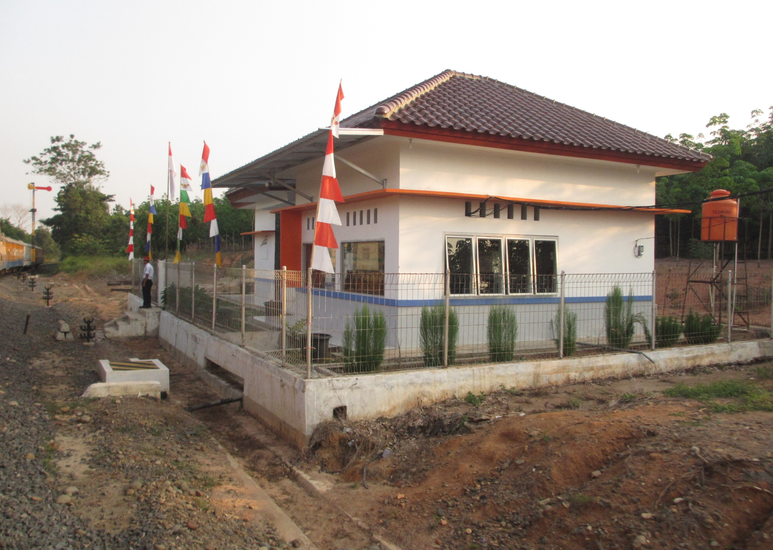 Kotabaru Railway Station.